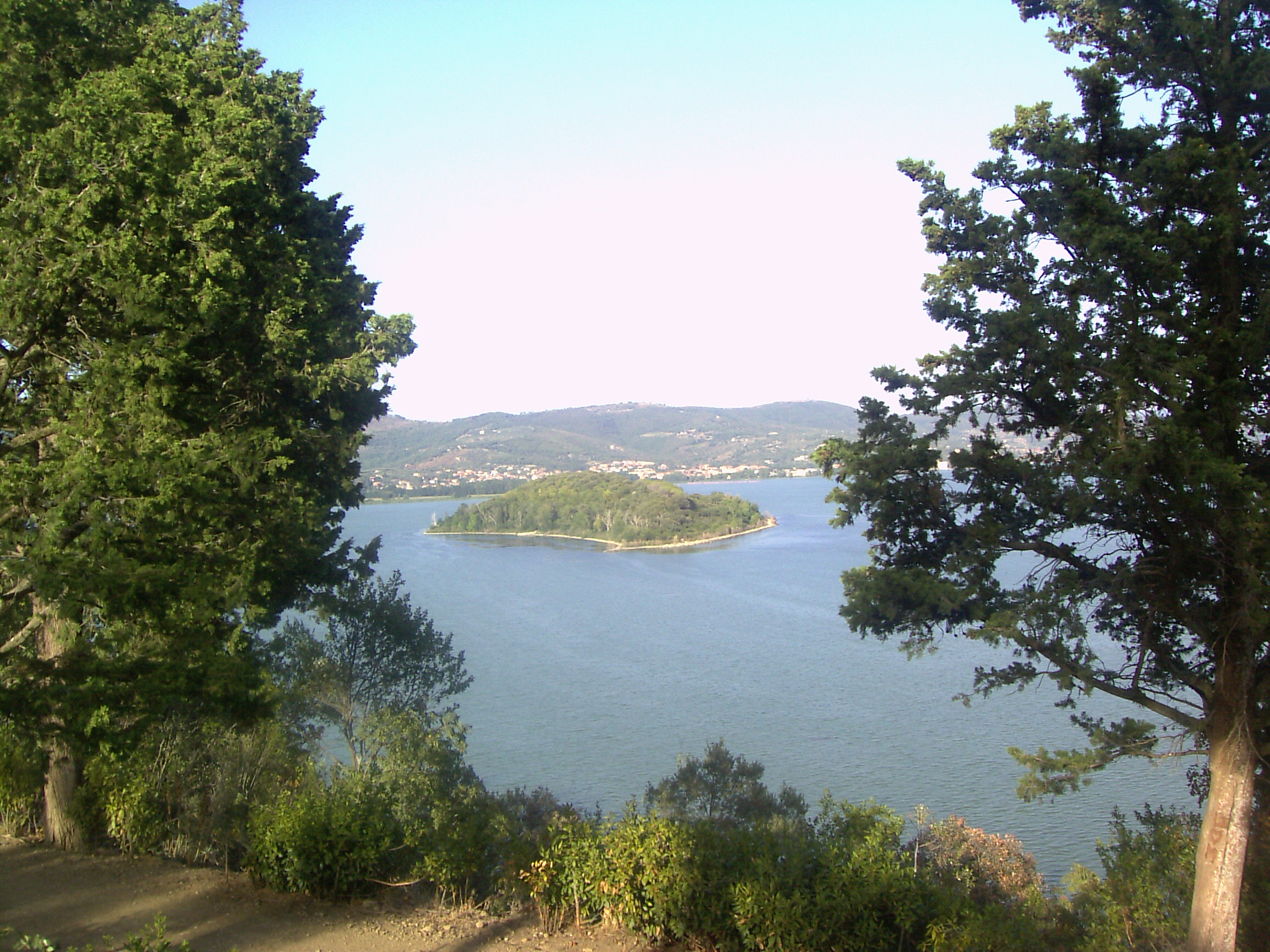 Minore Isle